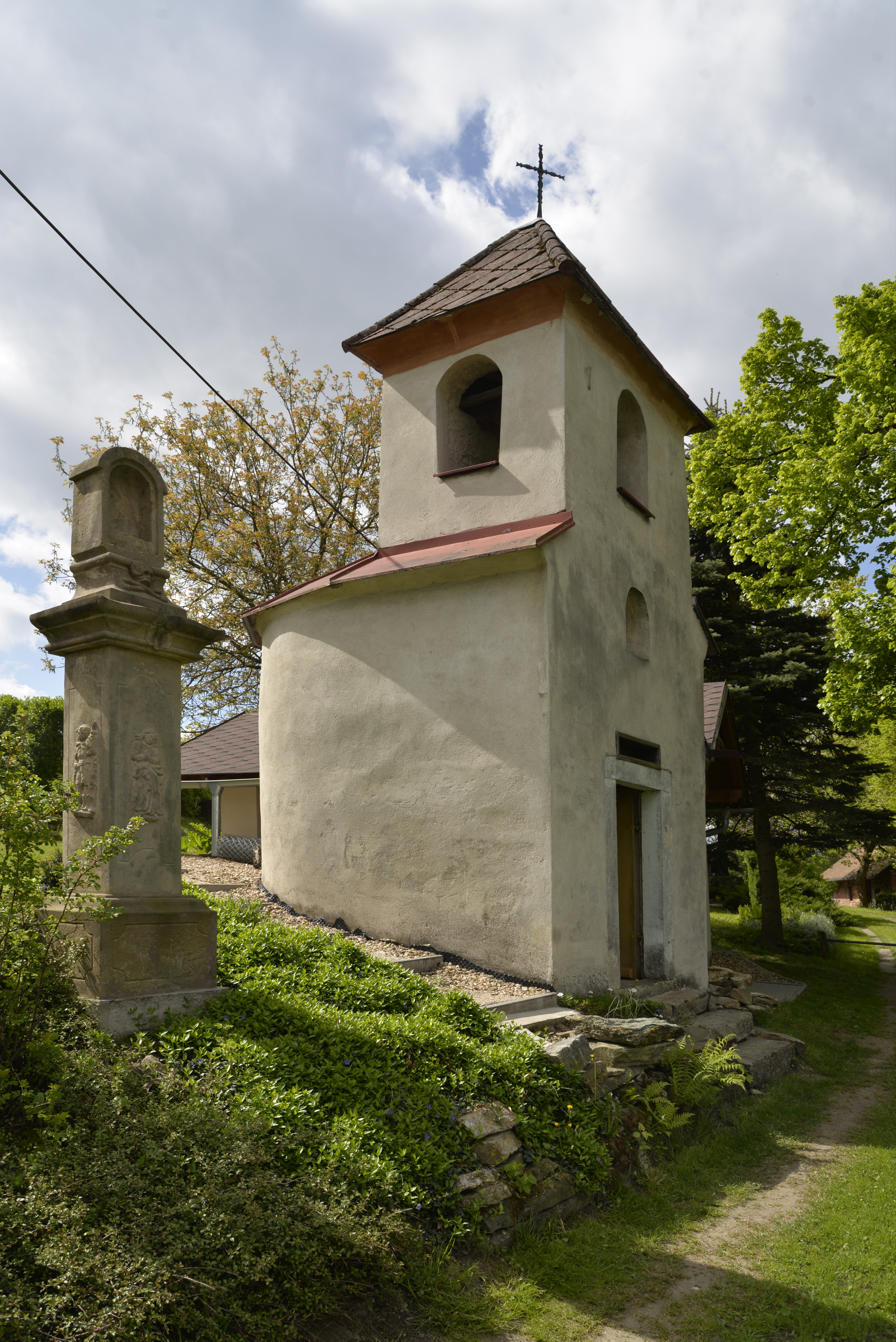 Chapel, Malá Horka.